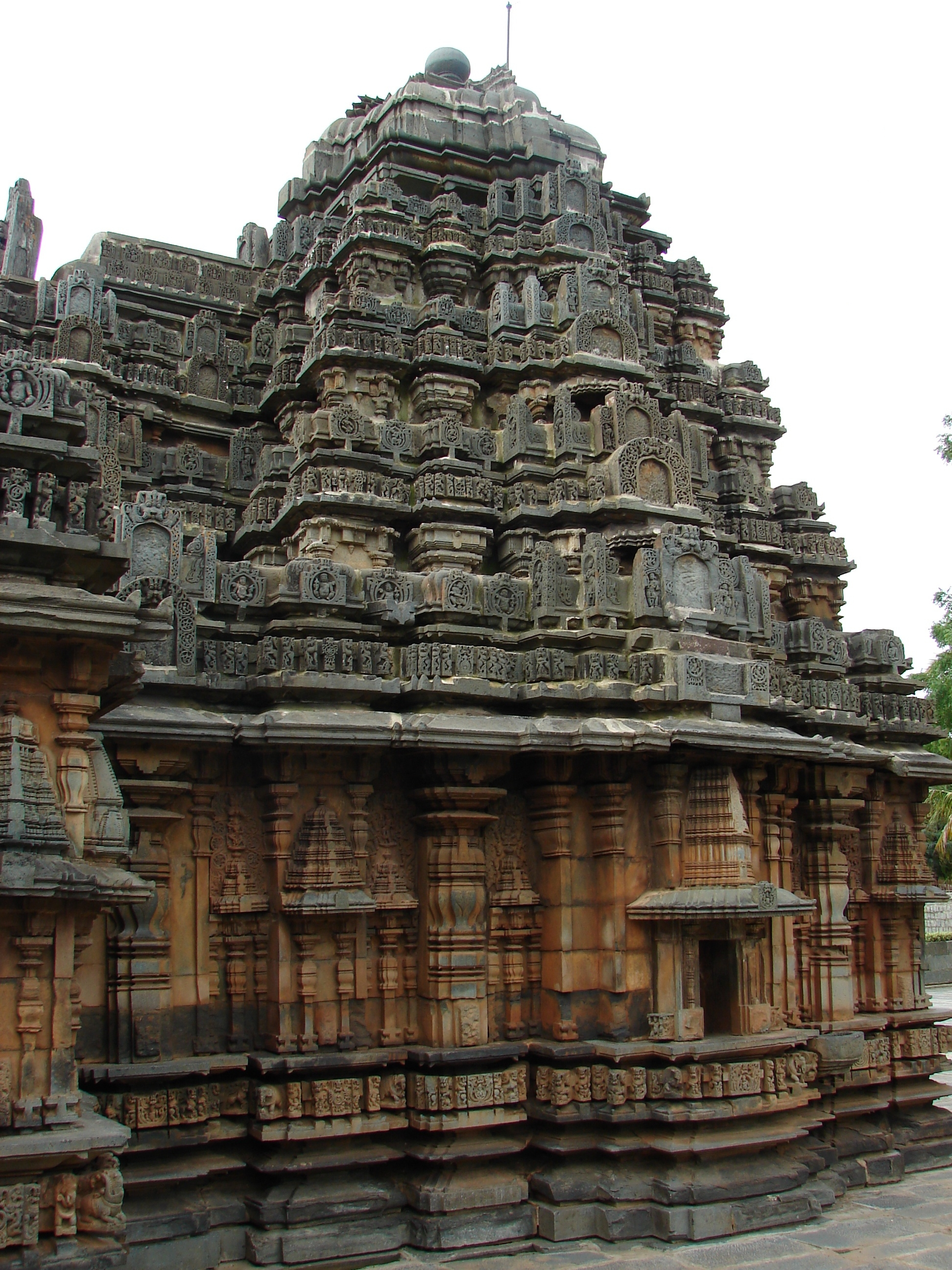 This image was taken by self (Dinesh Kannambadi) at the Siddesvara Temple in Haveri town, Haveri district, Karnataka state, India in July 2007.